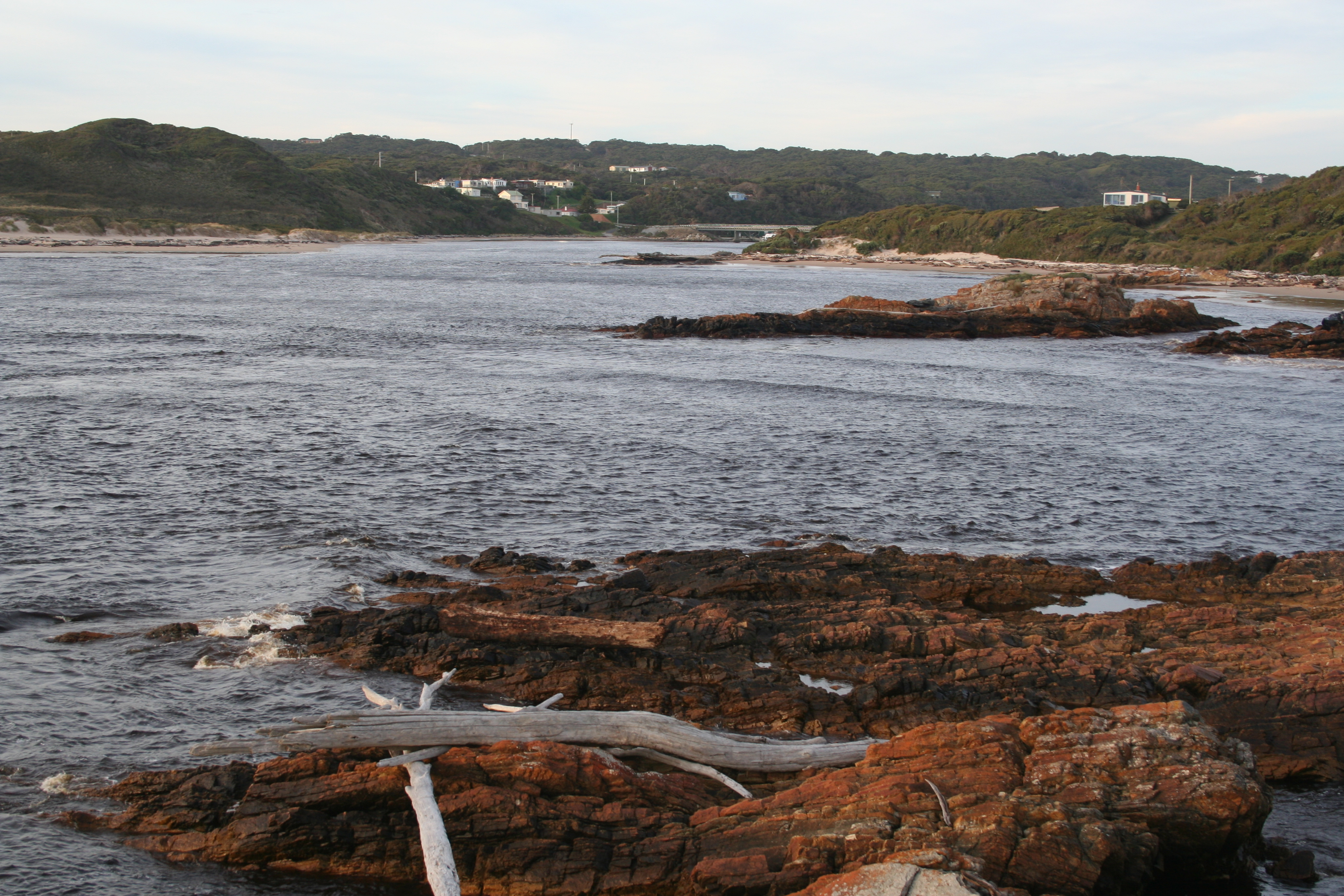 Mouth of the Arthur river, Tasmania, showing some of the houses and the bridge. Photo taken from a small promontory adjacent to the river bar looking back towards the village.